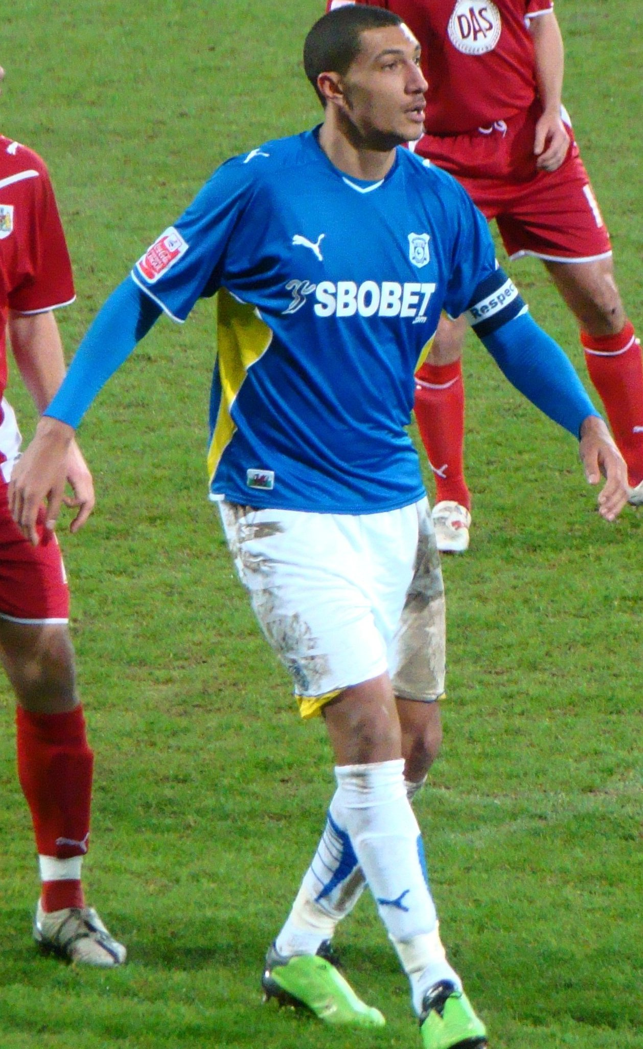 Jay Bothroyd cropped from, 19/01/10 Cardiff City V Bristol City, FA Cup 3rd Round. Cardiff City Stadium, Cardiff, Wales